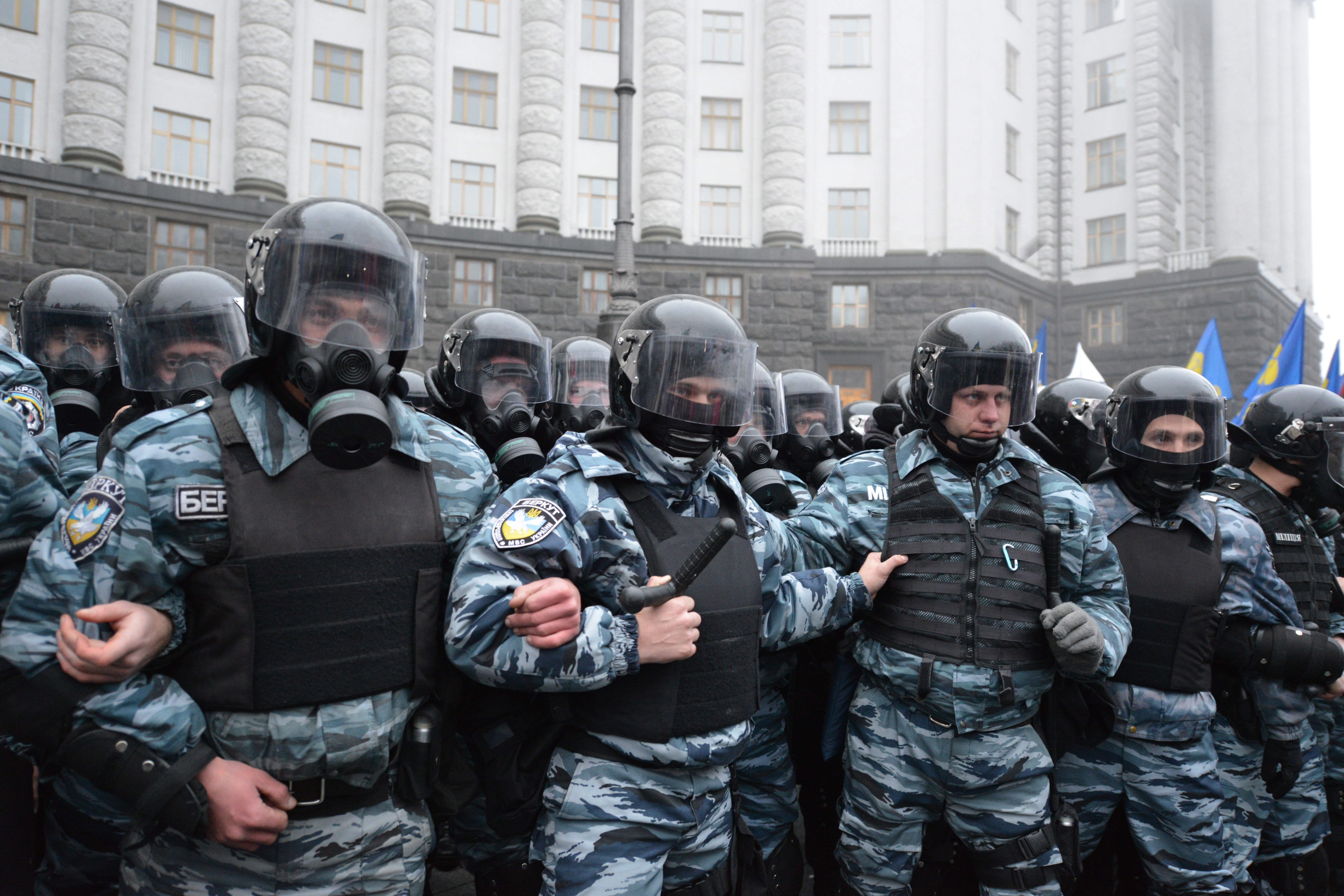 A massive pro-EU rally in Kiev on 24th of November, attended by over 100k